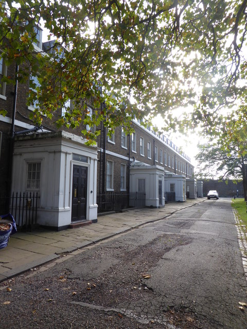 Terrace of five houses built in 1829-33 for the senior officers of the Royal Dockyard; by George Ledwell Taylor.